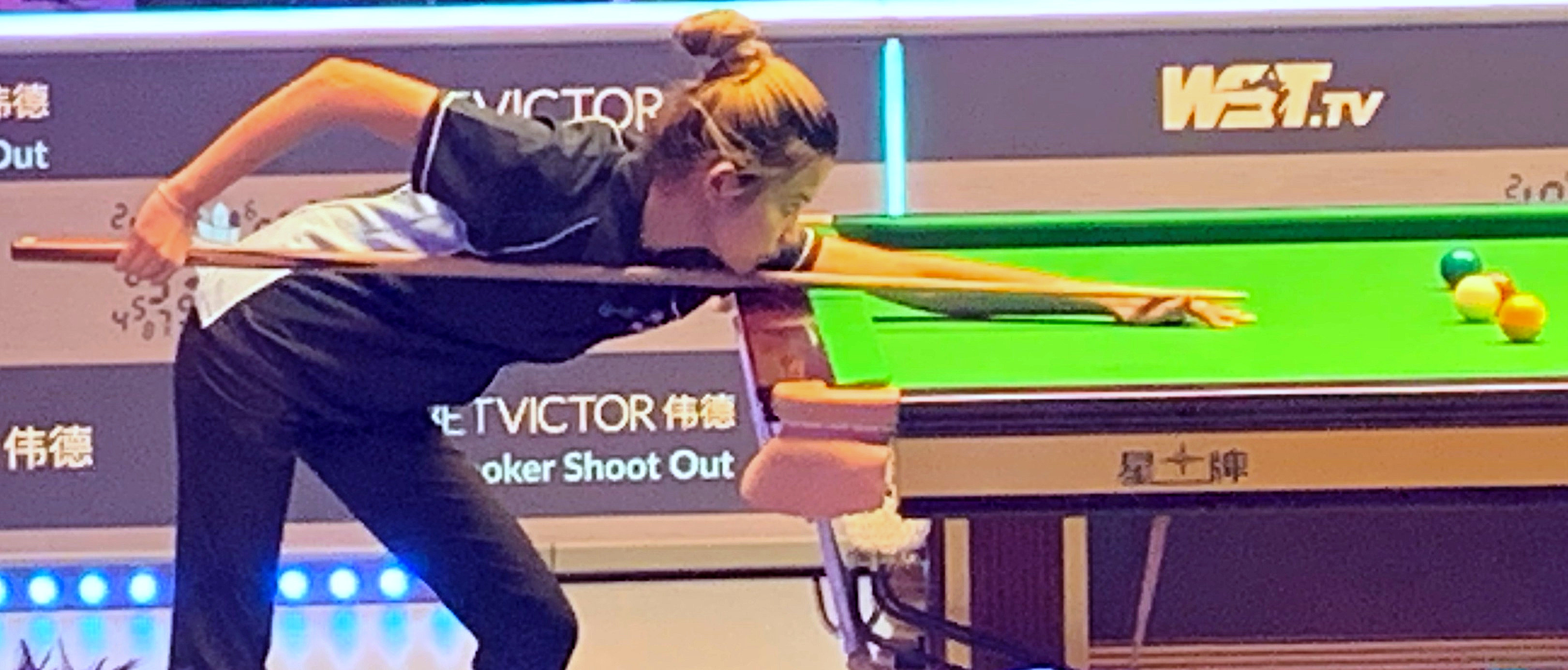 Nutcharut Wongharuthai at the 2020 Snooker Shoot Out tournament